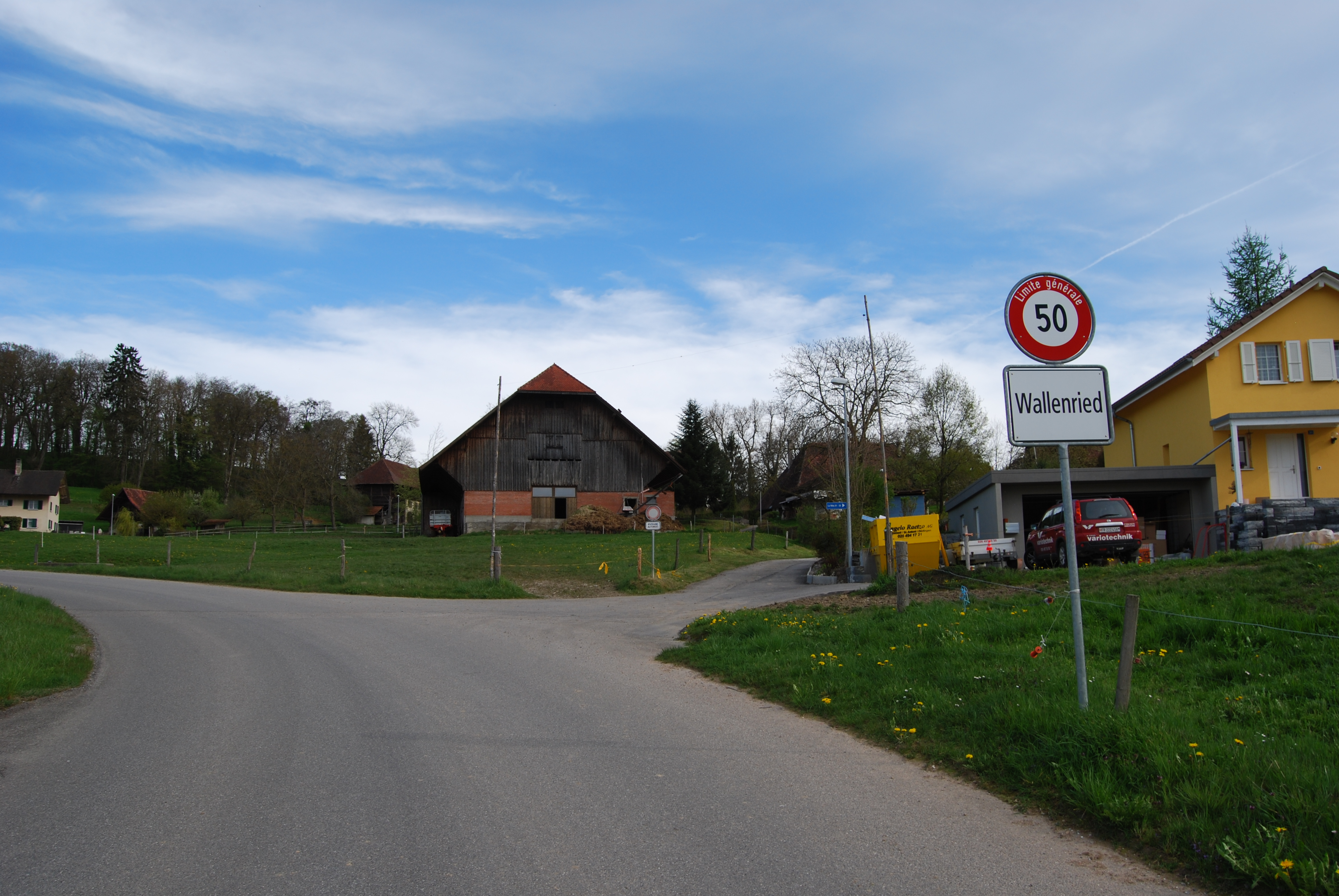 Wallenried, canton of Fribourg, SwitzerlandEsperanto: Wallenried, Kantono Friburgo, Svislando